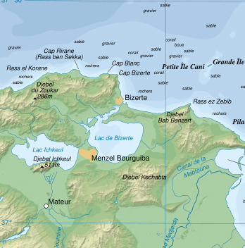 Topographic map in French of the Gulf of Tunis, Tunisia, with indication of the nature of the sea bottom